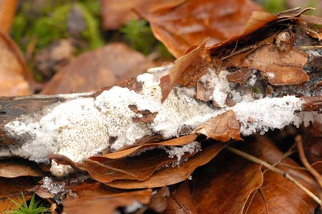 Trechispora mollusca from Commanster, Belgian High Ardennes .